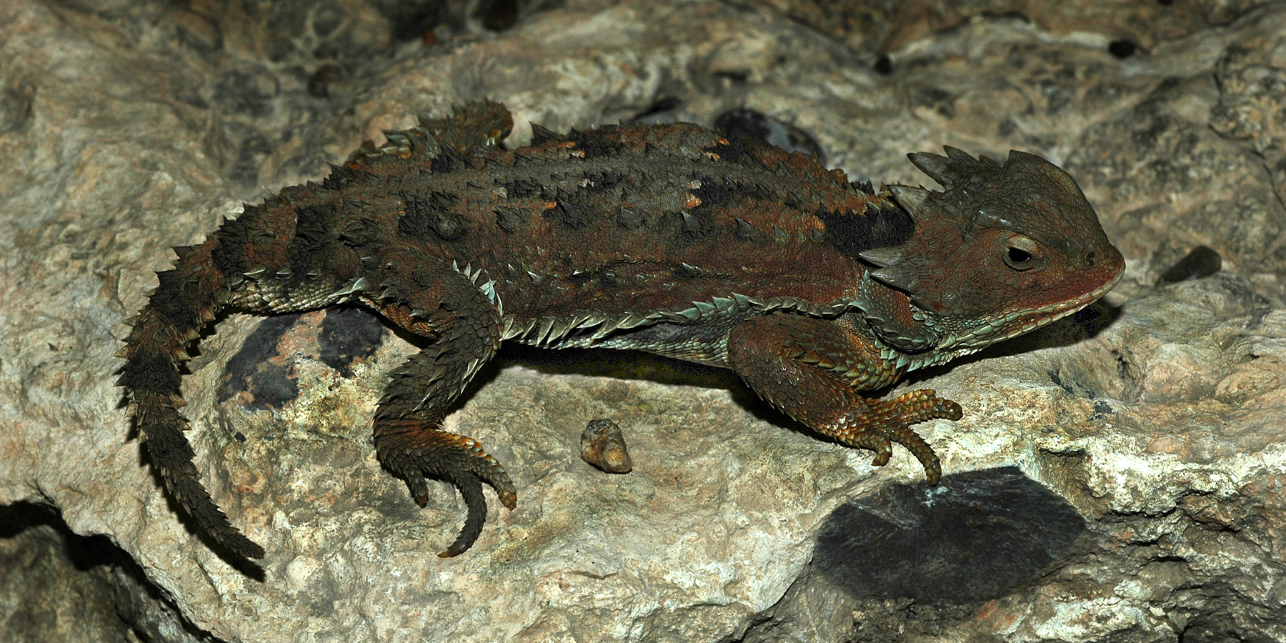 Mountain horned lizard (Phrynosoma orbiculare orientale), Municipality of Miquihuana, Tamaulipas, Mexico. Photographed on 24 September 2009 by William L. Farr